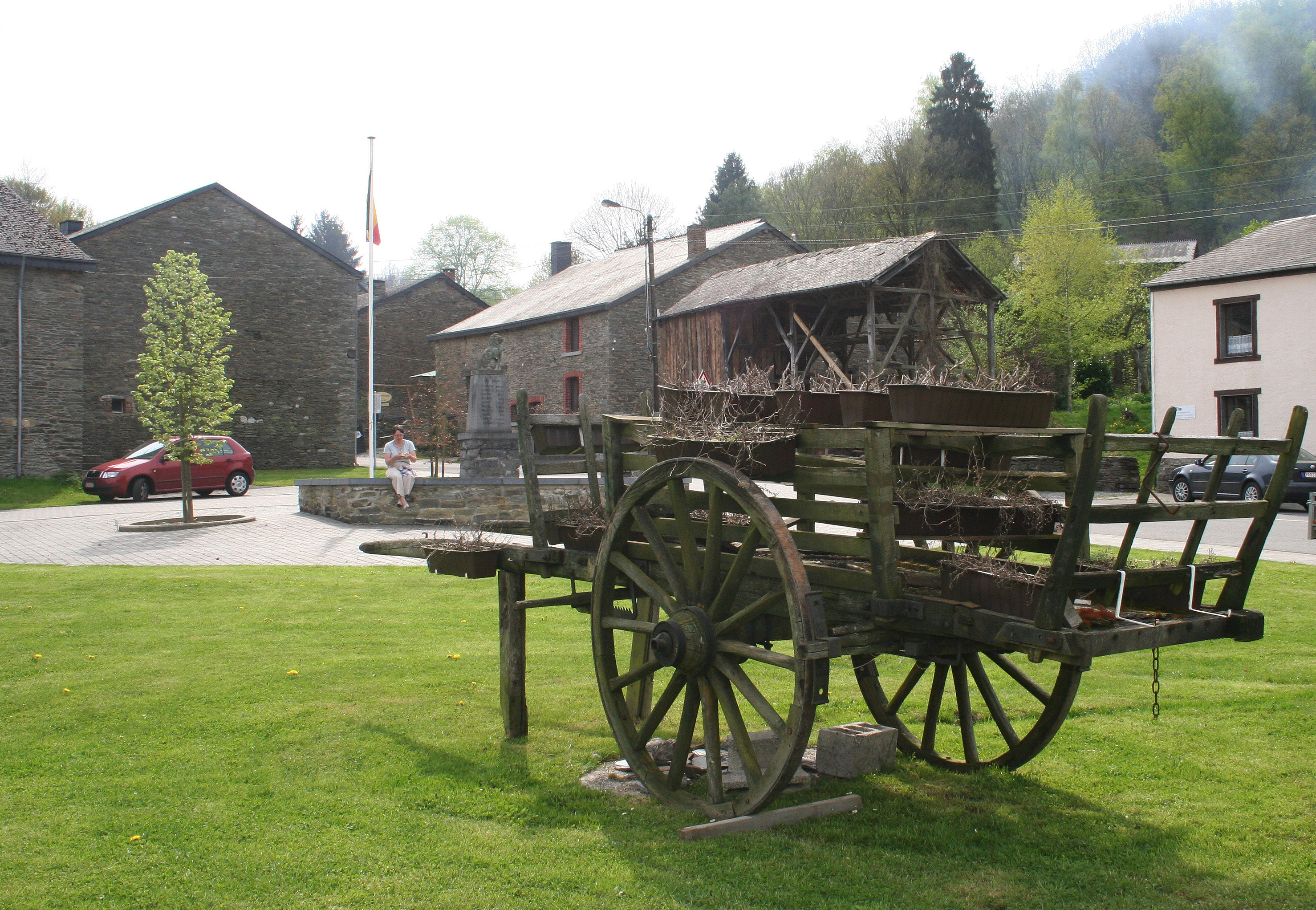 Laforêt (Belgium), the public square of the village.